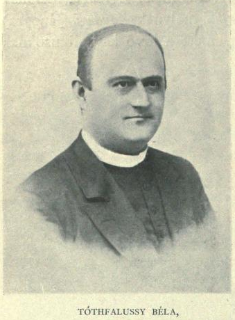 Portrait of Tóthfalussy Béla